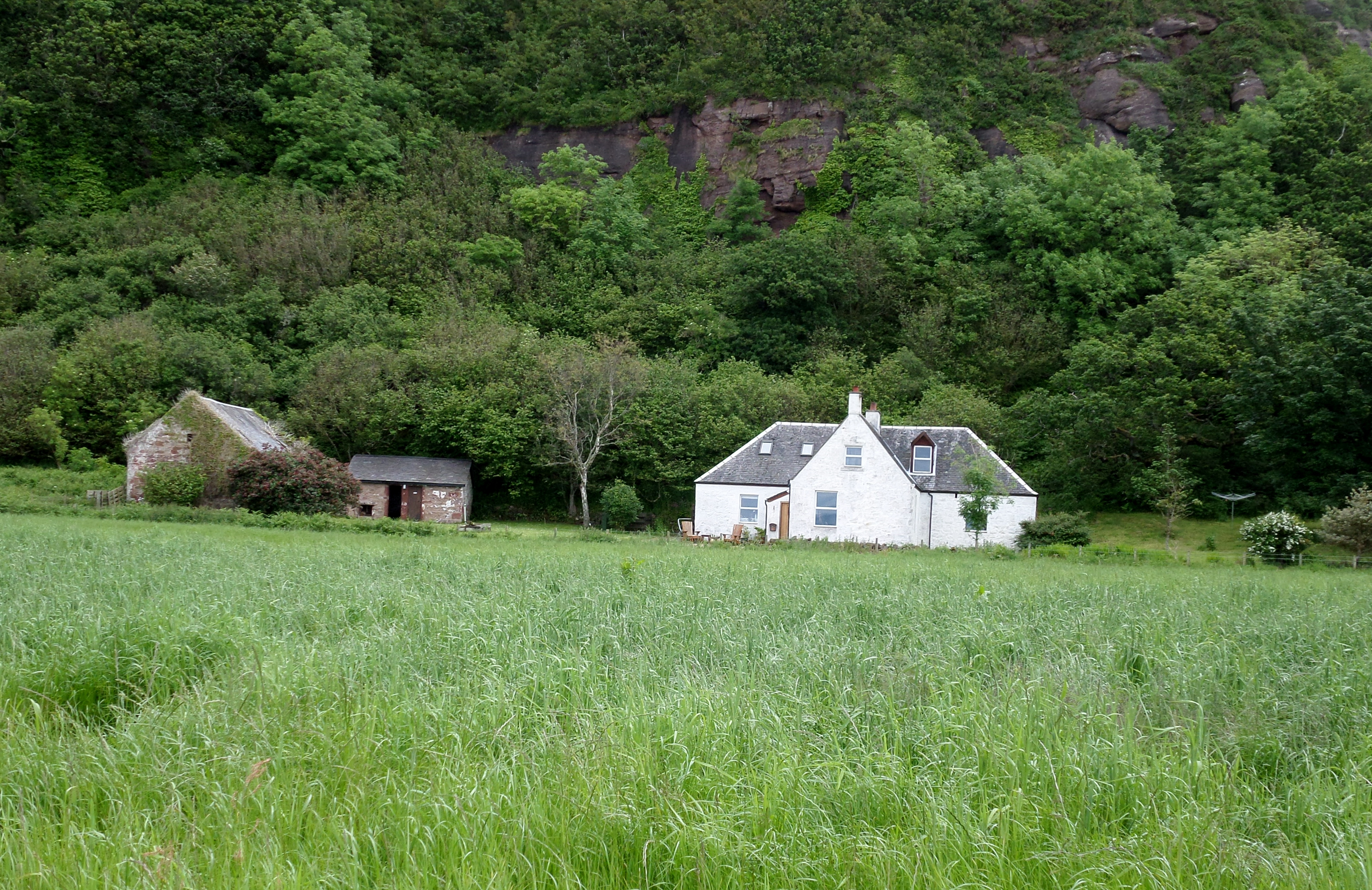 Northbank Farm, Portencross, North Ayrshire, Scotland. Site of a murder and multiple shootings in 1913.